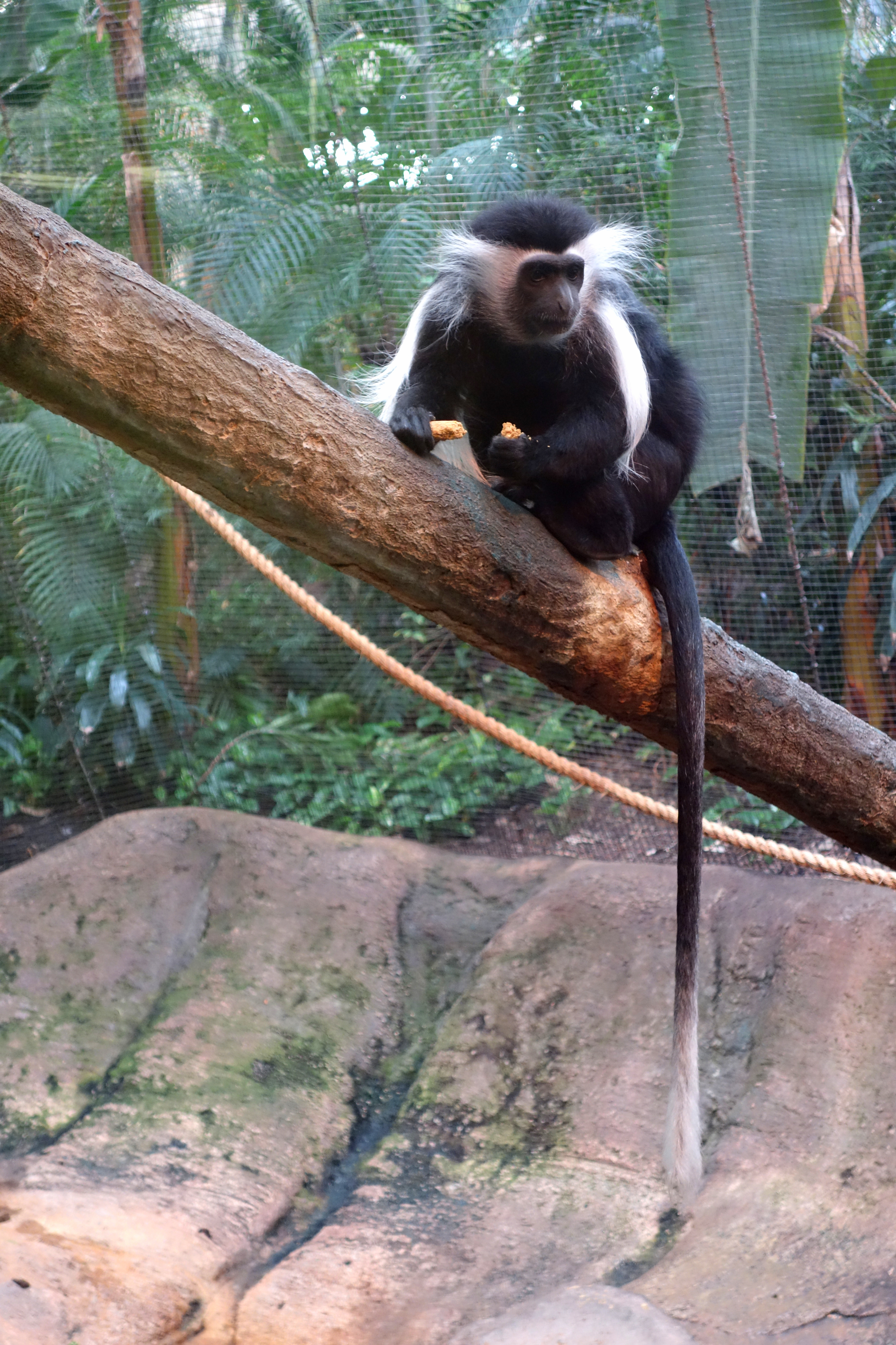 Pittsburgh Zoo, Pittsburgh, Pennsylvania, USA.